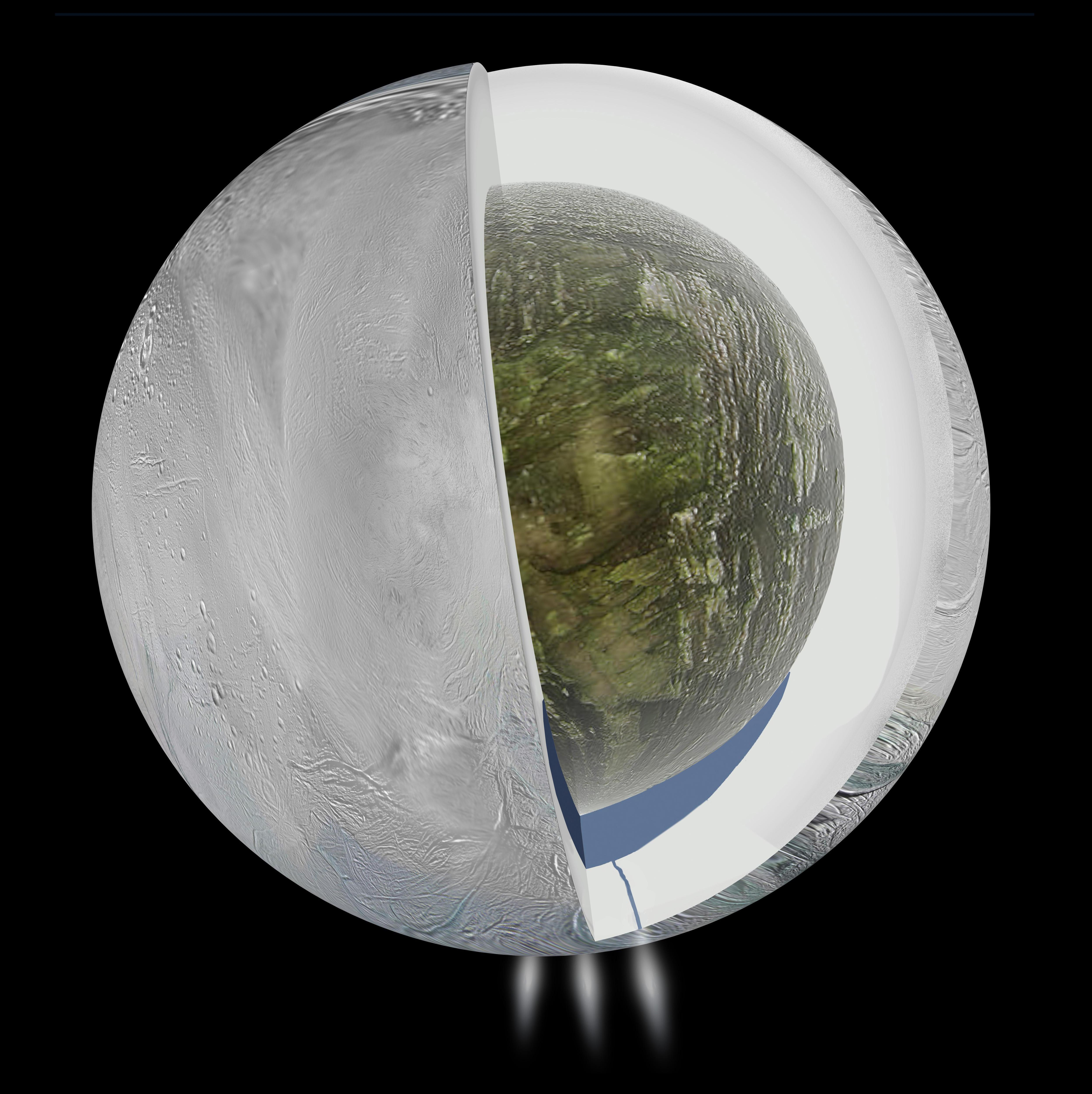 Ocean Inside Saturn's Moon Enceladus This diagram illustrates the possible interior of Saturn's moon Enceladus based on a gravity investigation by NASA's Cassini spacecraft and NASA's Deep Space Network, reported in April 2014. The gravity measurements suggest an ice outer shell and a low density, rocky core with a regional water ocean sandwiched in between at high southern latitudes. Views from Cassini's imaging science subsystem were used to depict the surface geology of Enceladus and the plume of water jets gushing from fractures near the moon's south pole. Enceladus is 313 miles (504 kilometers) in diameter. The Cassini-Huygens mission is a cooperative project of NASA, the European Space Agency and the Italian Space Agency. NASA's Jet Propulsion Laboratory, a division of the California Institute of Technology in Pasadena, manages the mission for NASA's Science Mission Directorate, Washington. For more information about the Cassini-Huygens mission visit and